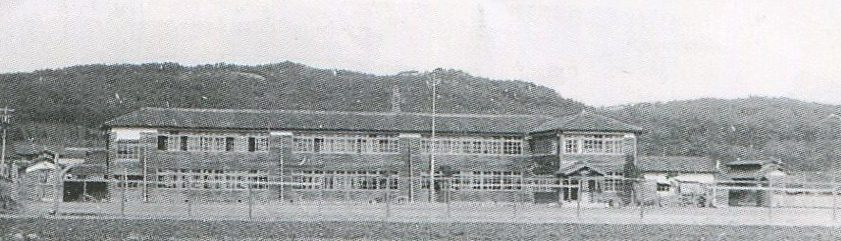 Kurumi junior high school in 1948 - 1952